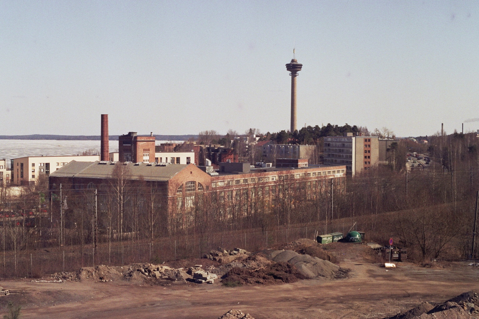 A view from the city of Tampere in Finland. The tower is Näsinneula.